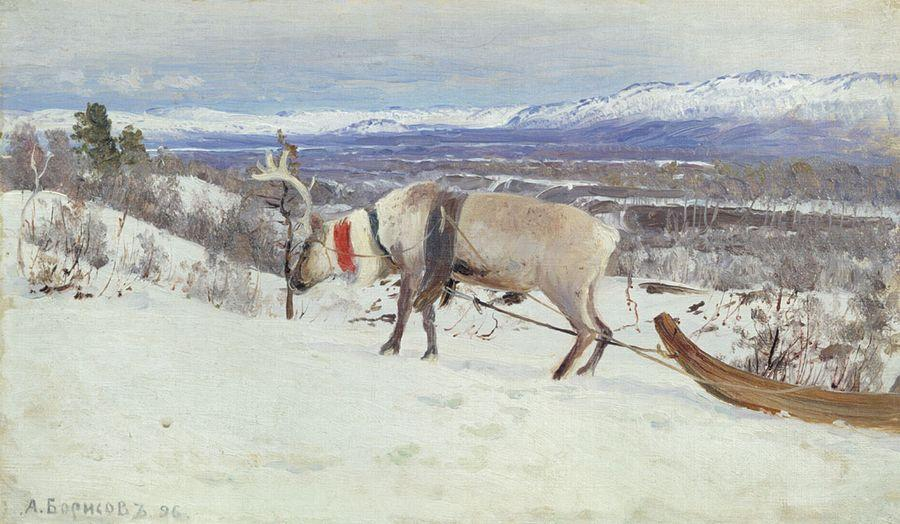 Murman, close to a harbor